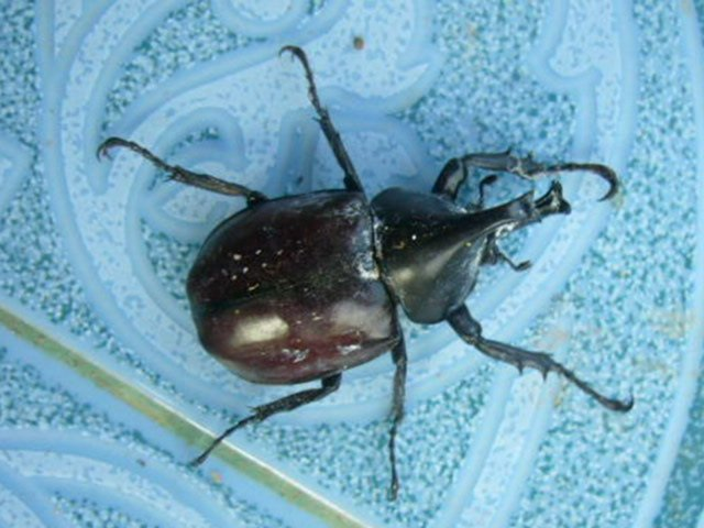 Beetle (Xylotrupes), seen in Thailand It's male of Xylotrupes socrates